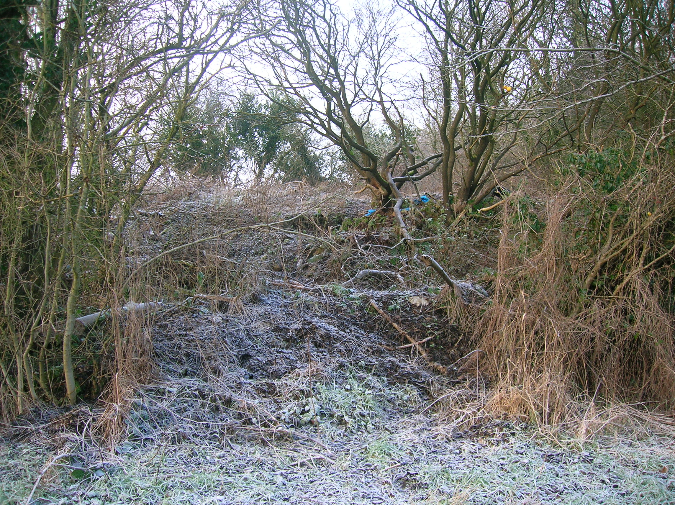 The old coup at Millburn used by Benslie, North Ayrshire, Scotland. "Coup" is Scottish slang for a rubbish dump.